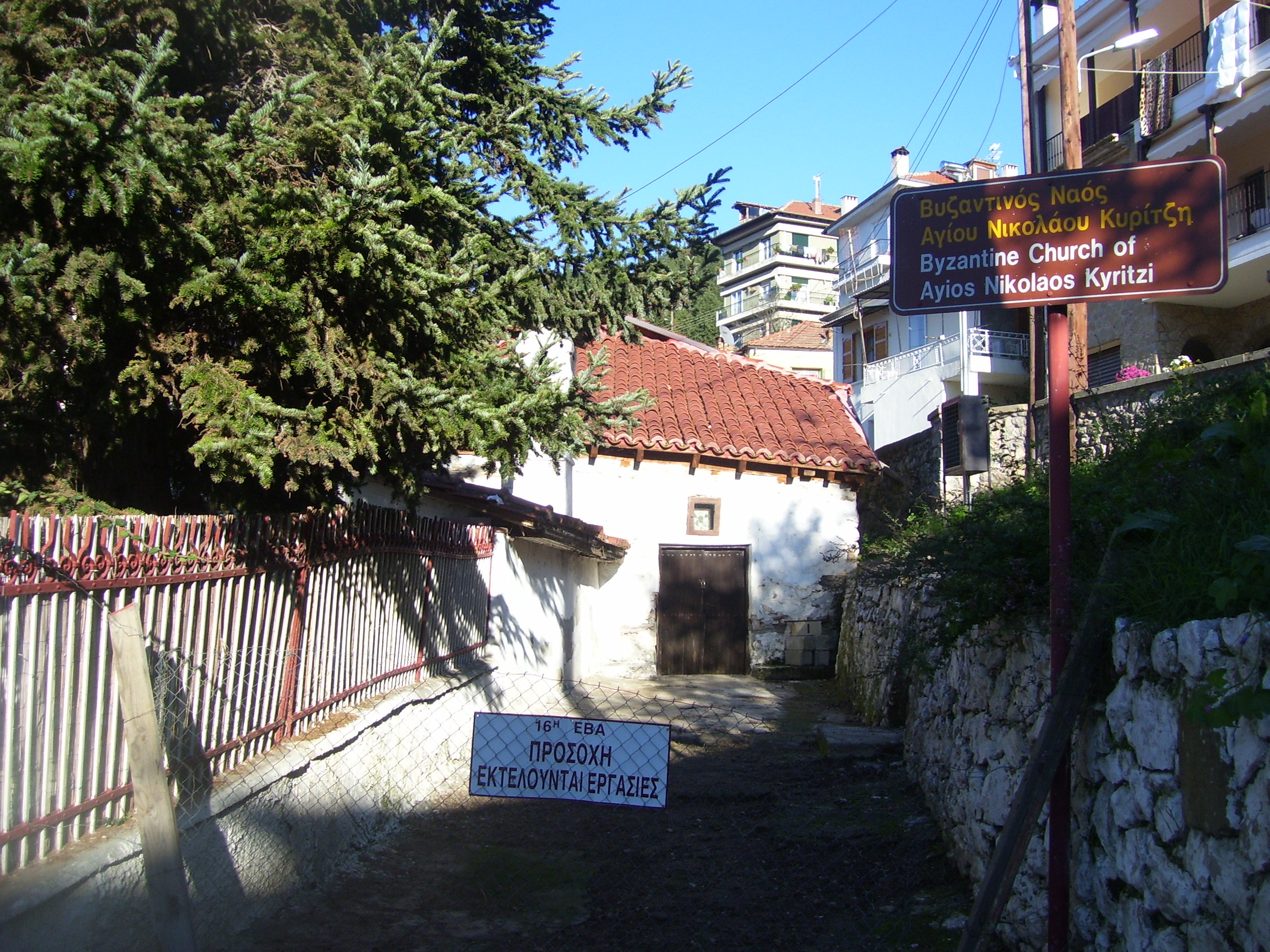 Church of „Nikolay Kiritski“ in Kastoria, Greece.